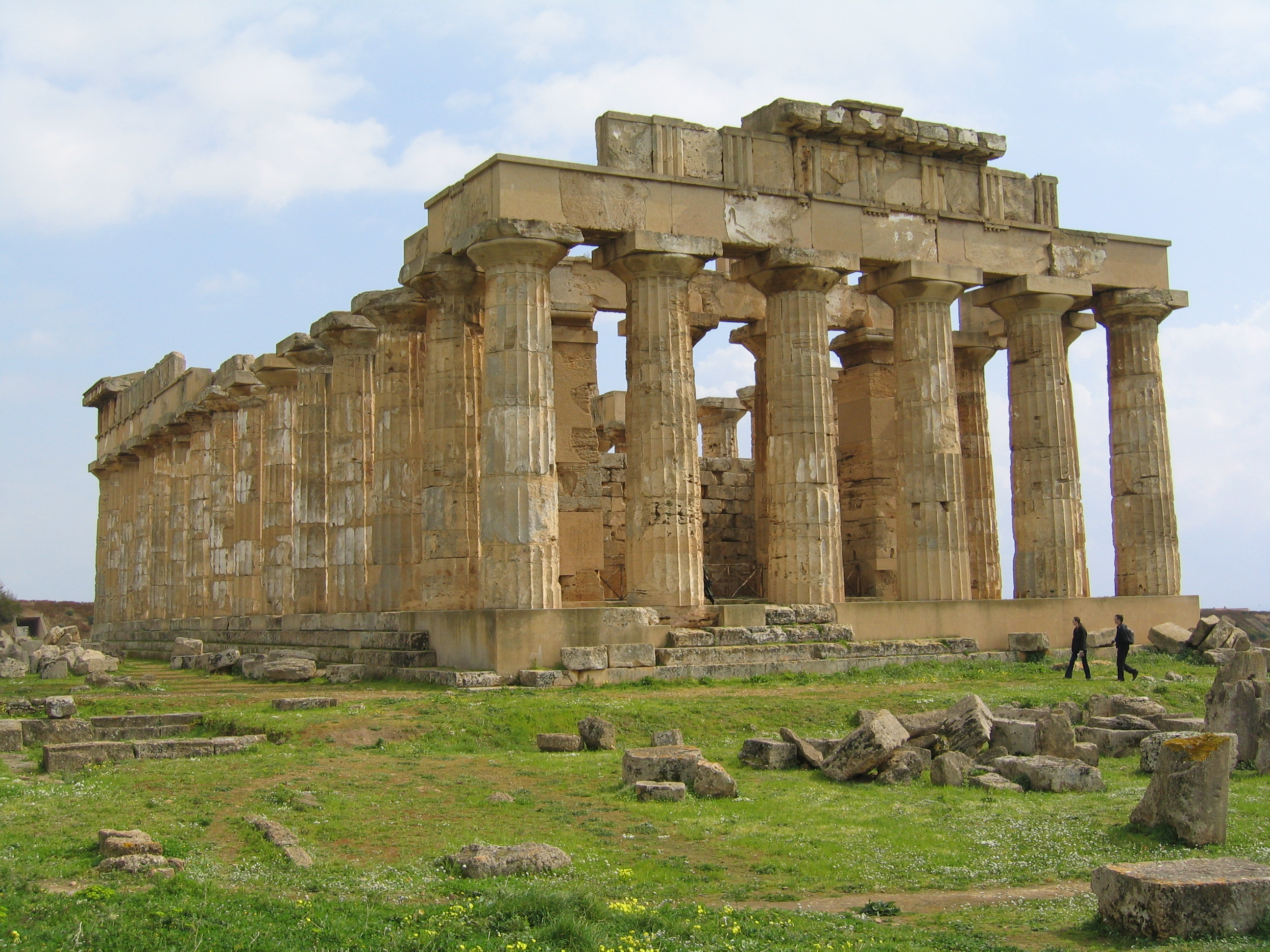 Temple E - Selinunte, Italy